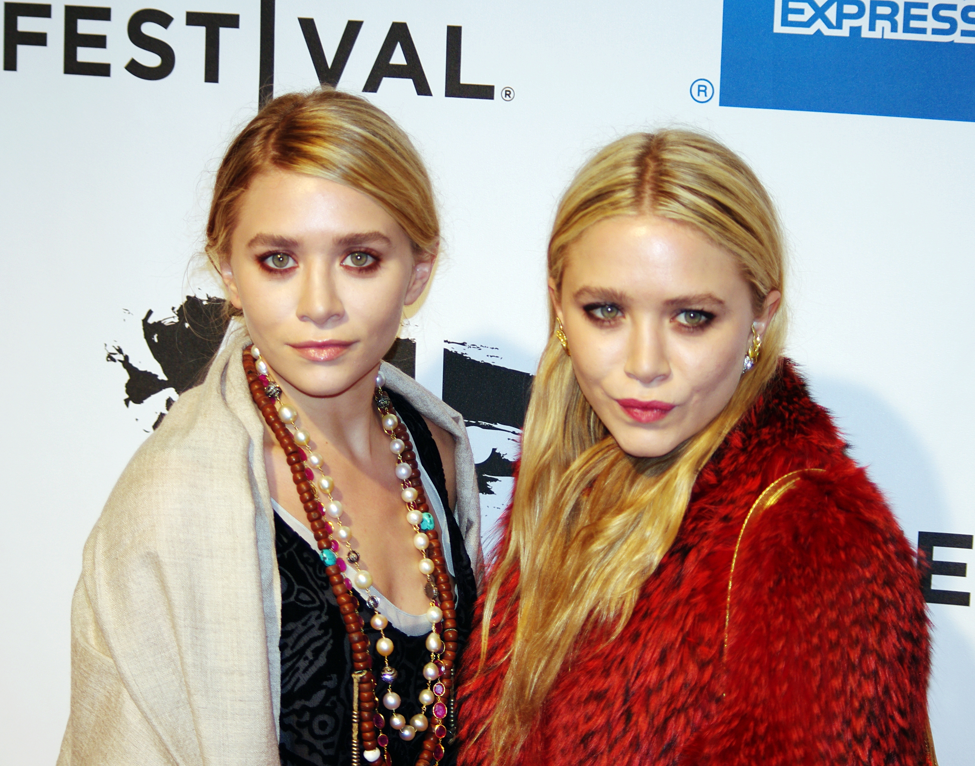 Ashley Olsen and Mary-Kate Olsen attending the premiere of The Union at the Tribeca Film Festival.